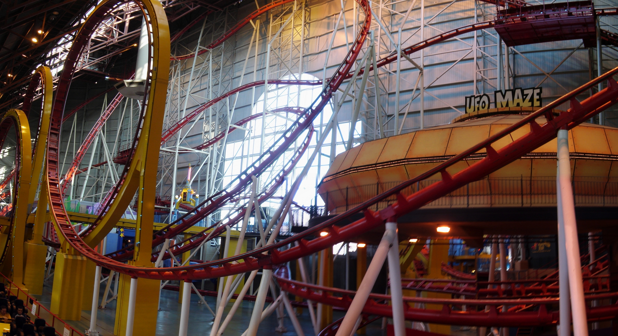 Rollercoaster in Galaxyland, West Edmonton Mall, Edmonton, Alberta, Canada